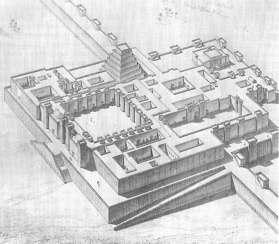 Palace of Sargon II in Dur-Sharrukin (reconstruction).